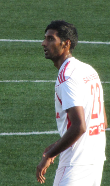 Sandesh Gadkari - Footballer Date of Birth: 16 Mar 1987 (Age 24) Place of Birth: Pune Nationality: India Position: Striker Squad Number: 23 Club - Air India